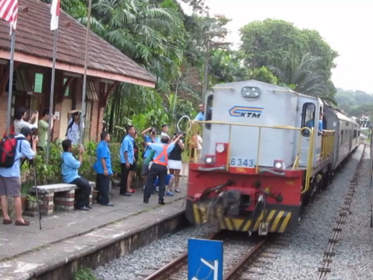 Bukit Timah Railway Station in Singapore - train driver picking up the key token (authority to pass) from the station master whilst the train is still fast moving.